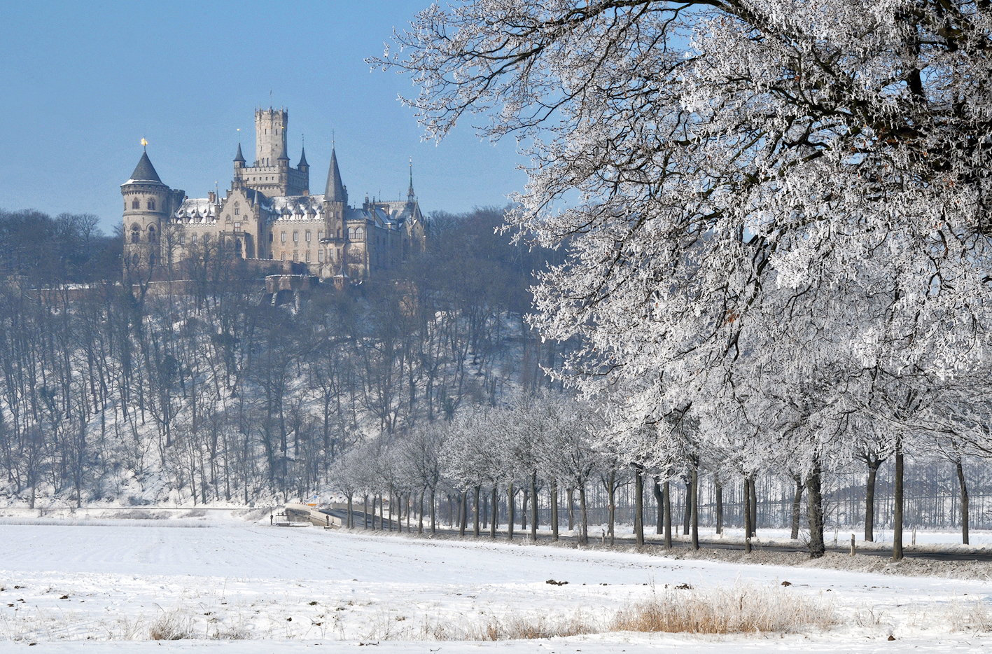 Mountain Marienberg and the Marienburg Castle in hoarfrost in winter. Marienburg Castle is a famous German castle in the Region Hanover, Lower Saxony, Germany, built by Marie of Saxe-Altenburg, Queen of Hanover. The castle mustn't be confused with the Marienburg near Hildesheim.